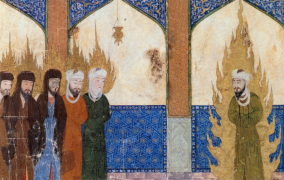 Medieval Persian manuscript depicting Muhammad leading Abraham, Moses and Jesus in prayer.